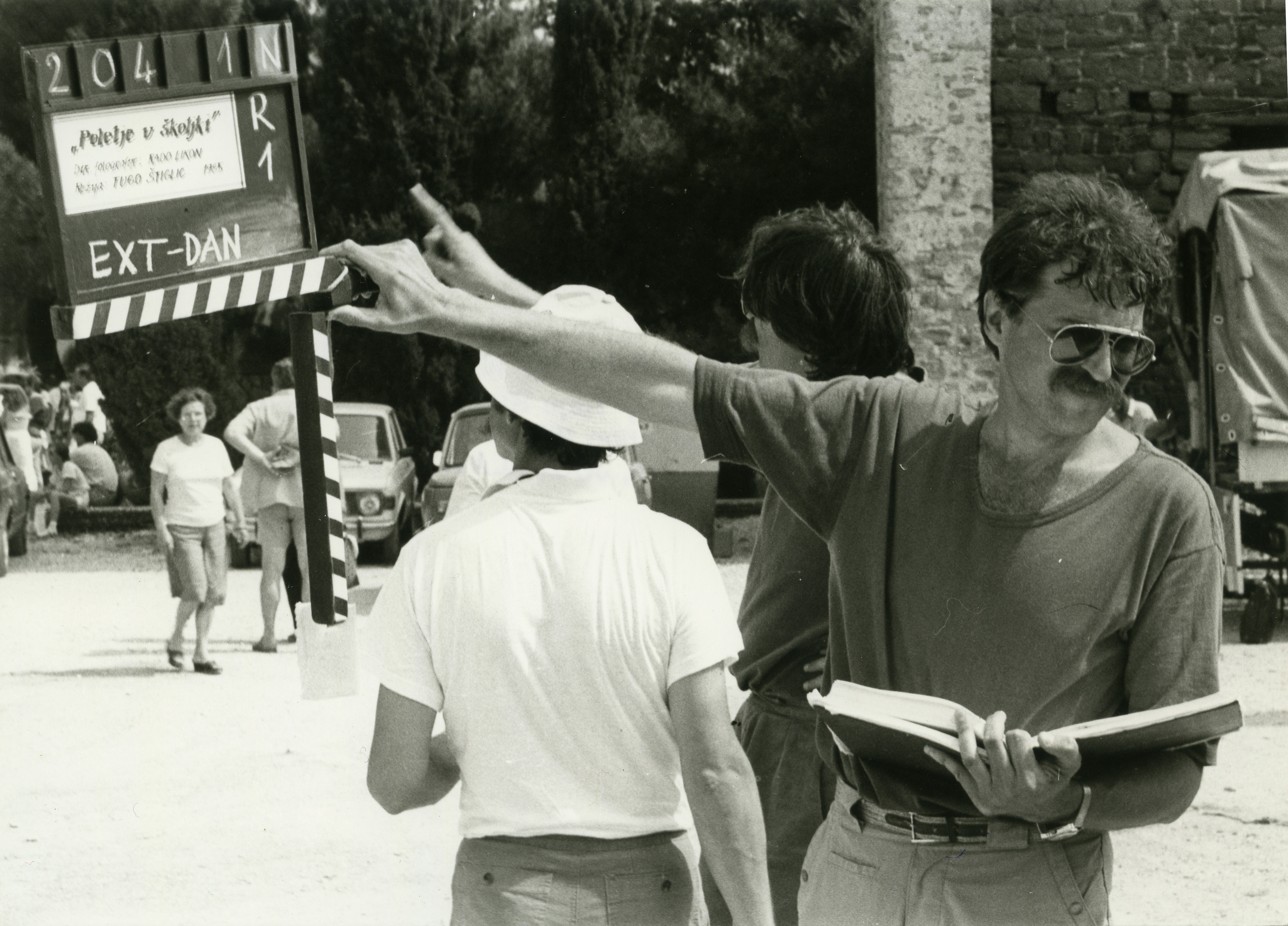 Tugo Štiglic